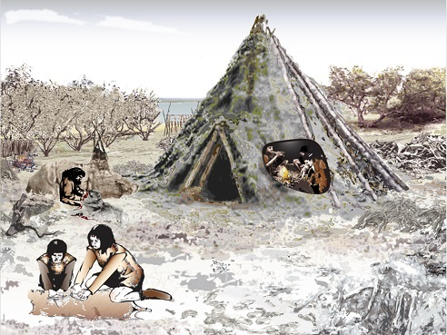 Recreation of the Mesolithic sunken-floored building from Echline field